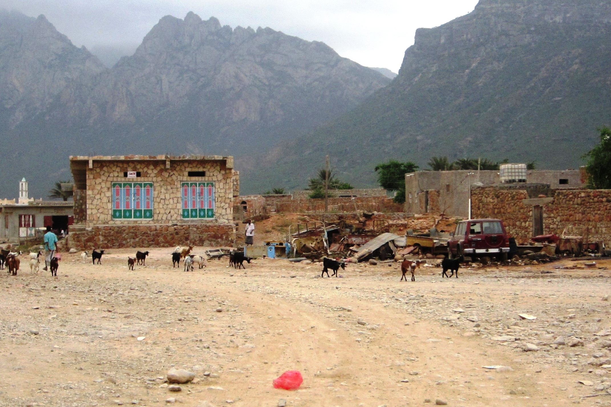 island goats yemen socotra soqotra hadiboh